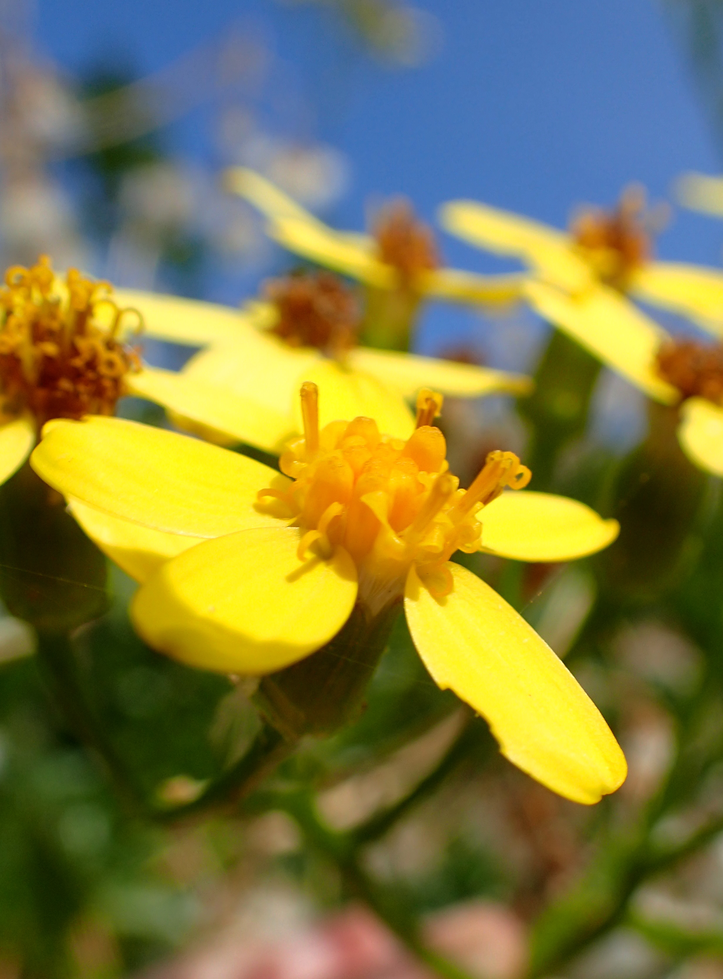 Senecio angulatus in Los Felipes, Tenerife